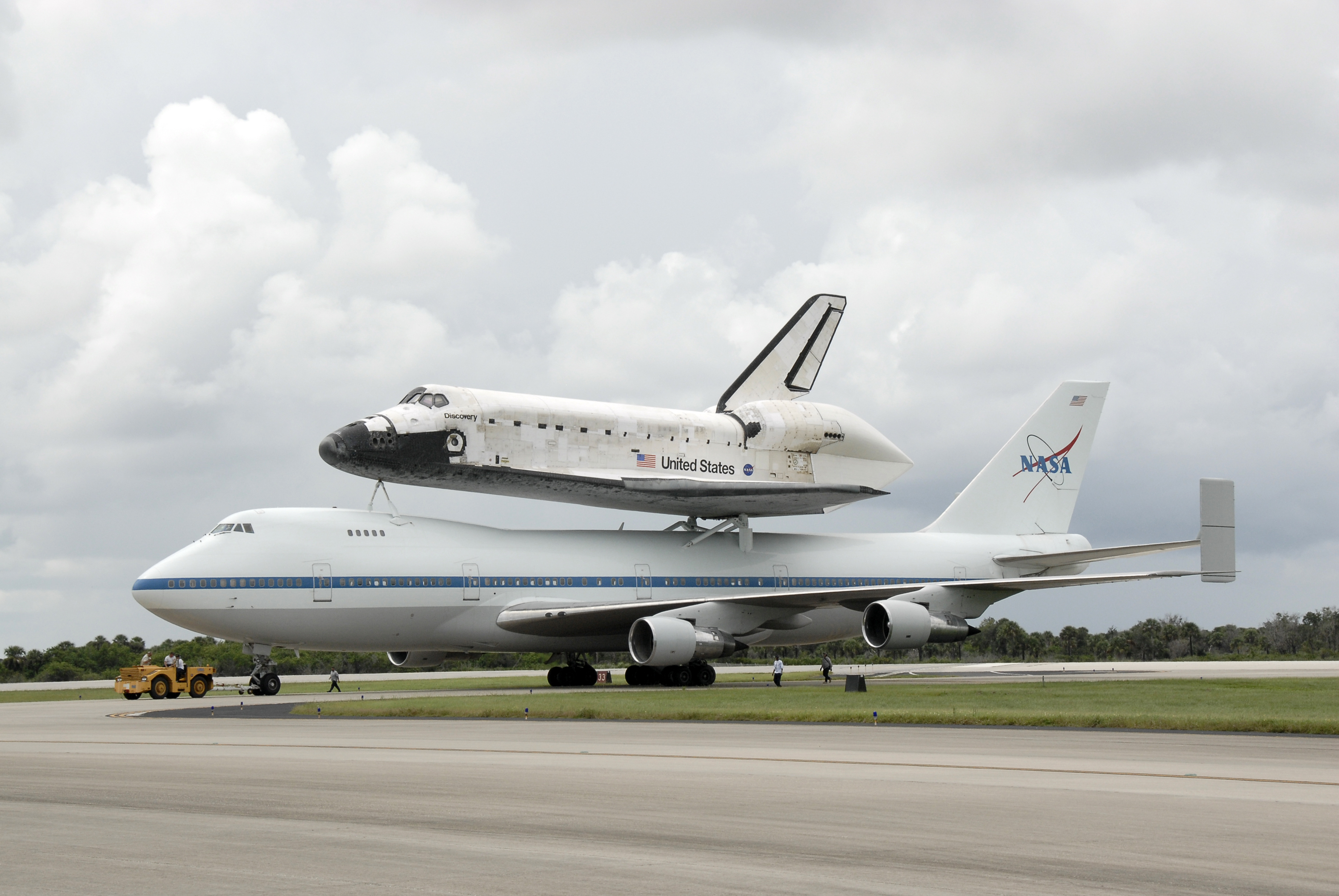 CAPE CANAVERAL, Fla. – The Boeing 747 Shuttle Carrier Aircraft, or SCA, with space shuttle Discovery on top, is ready for towing from the Shuttle Landing Facility's runway 33 at NASA's Kennedy Space Center in Florida after touching down at 12:05 p.m. EDT. The two-day return flight from Edwards Air Force Base in California began at 9:20 a.m. EDT Sept. 20. After three fueling stops that included an overnight stay in Louisiana, the piggybacked shuttle had to navigate through a line of showers across Louisiana and around Kennedy. Discovery had landed at Edwards Sept. 11 after the 13-day STS-128 mission to the International Space Station. The shuttle delivered more than 7 tons of supplies, science racks and equipment, as well as additional environmental hardware to sustain six crew members on the station. Landings at Kennedy were waved off on two days due to inclement weather, leading to the landing at Edwards.